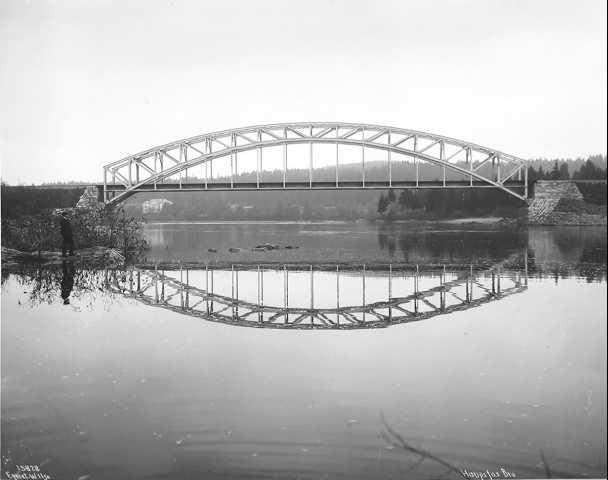 Haugsfoss Bridge on the Solør Line in Elveurm, Norway